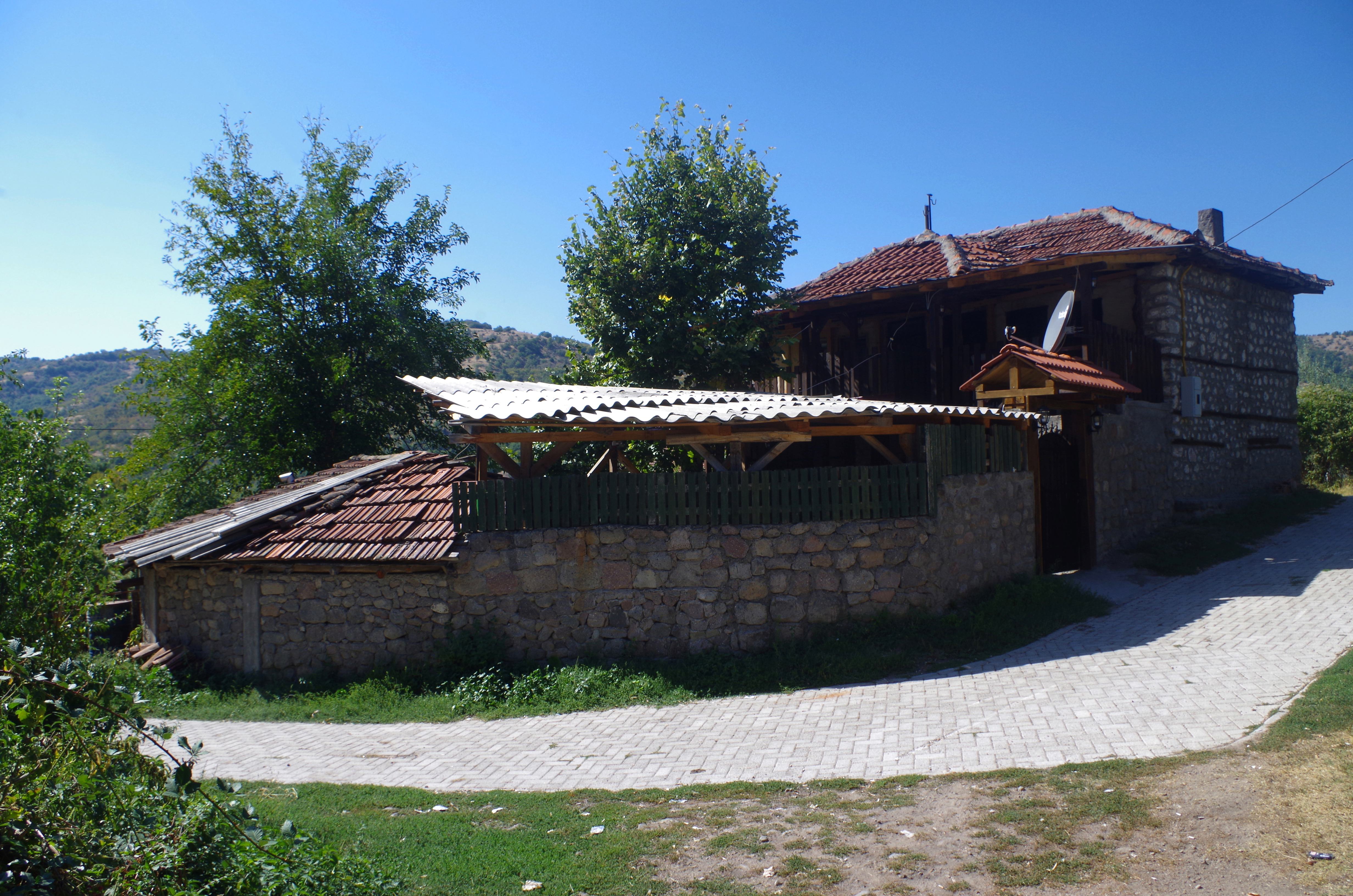 Traditional house in the village of Gorna Bošava